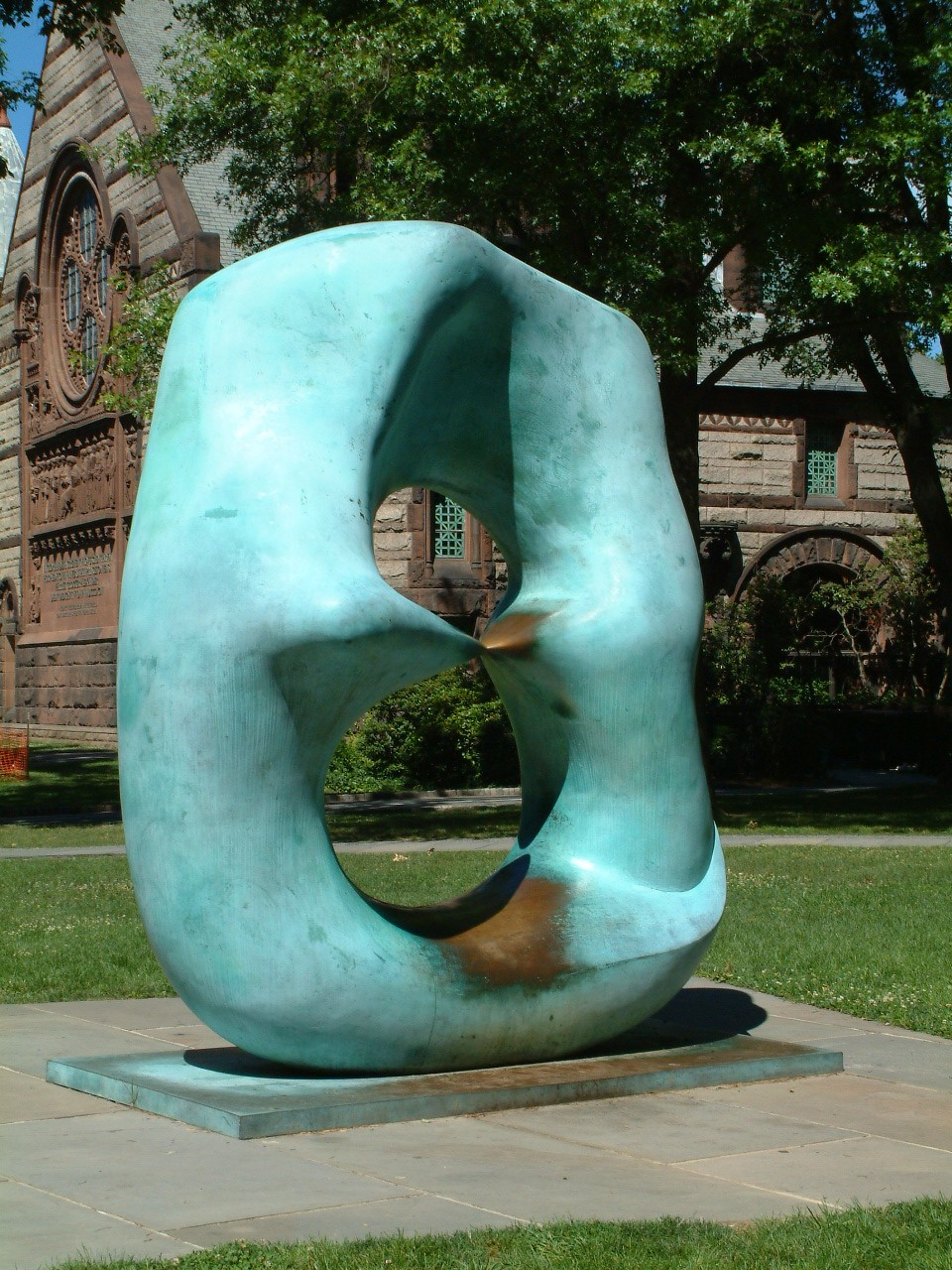 "Oval with Points", Henry Moore, Installed 1971. Princeton University. Unsigned, no copyright notice. [1]